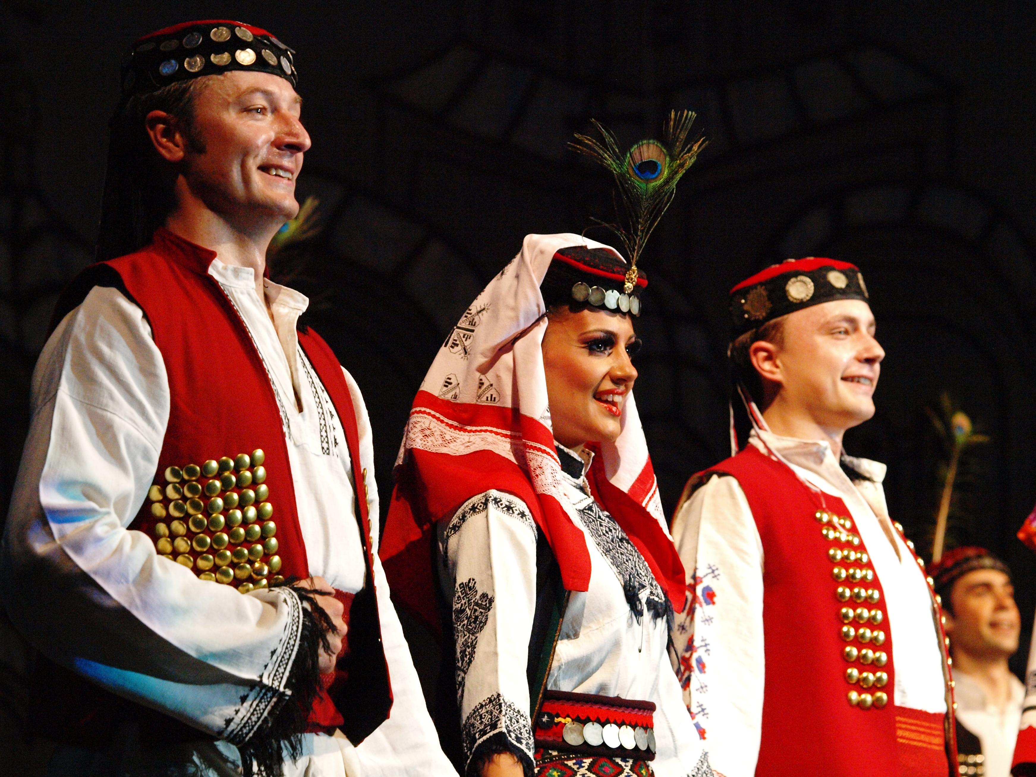 Serbian play for "St. George's day" from Podgrmeč, Bosnia. National ensamble KOLO from Belgrade.